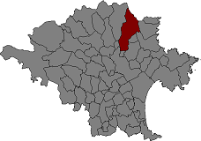 Location of Rabós in Alt Empordà